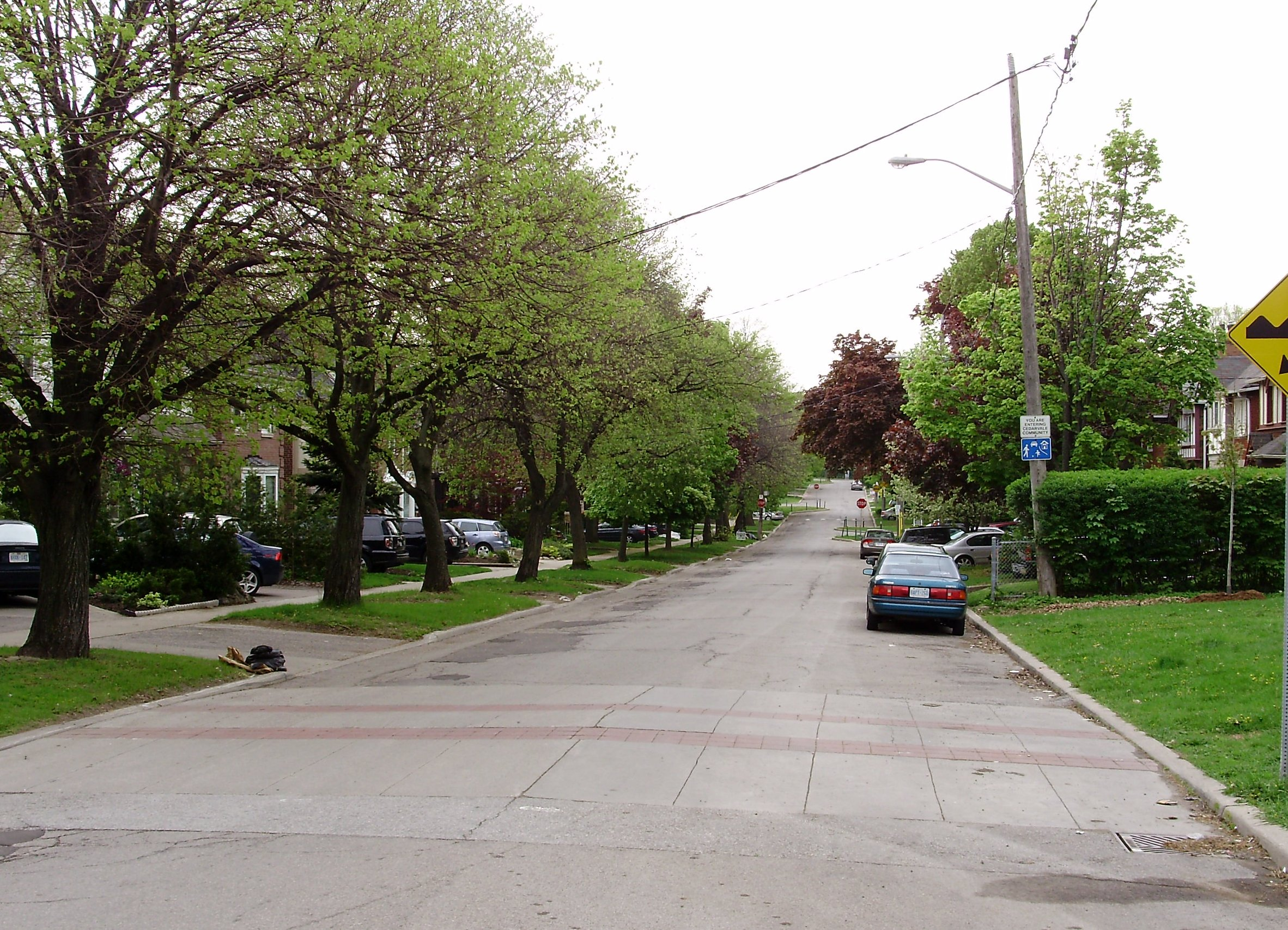 Strathearn Road, a residential street in the neighbourhood of Humewood-Cedarvale in Toronto, Canada.